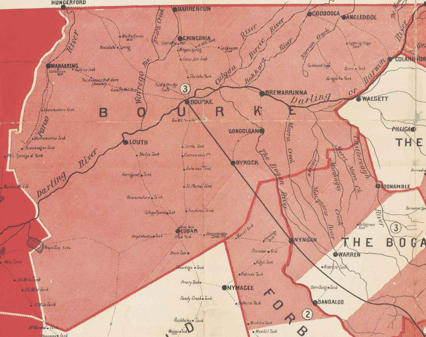 cropped from Image:1892 Electoral and Political Reference Map of New South Wales.jpg